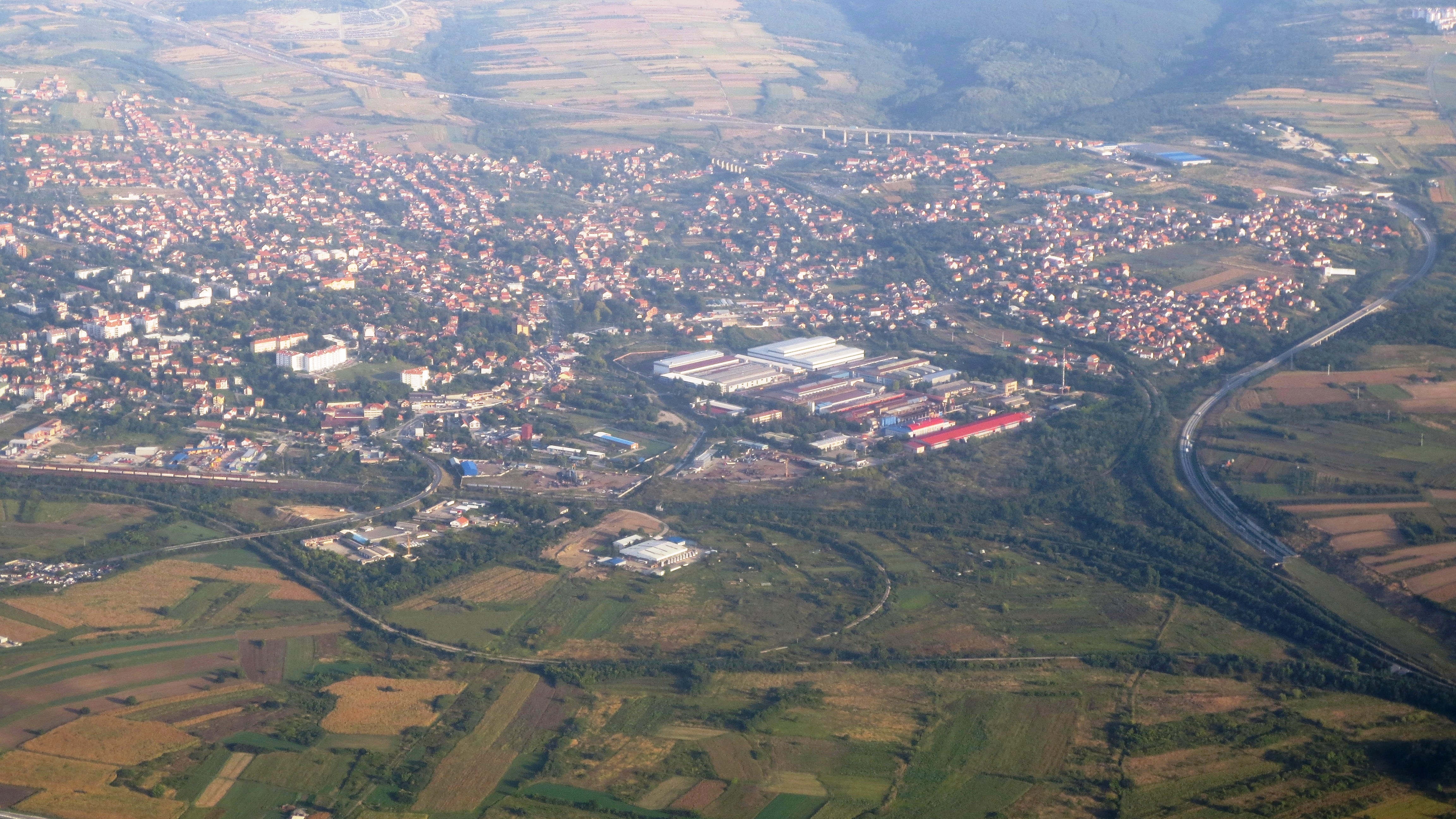 Aerial view over Zheleznik ("Iron City"), Čukarica municipality, east of Beograd, Serbia. The large factory facility visible, is the former "Ivo Lola Factory", now operated by Montavar d.o.o Beograd. The factory is producing machine parts and other mechanical components.